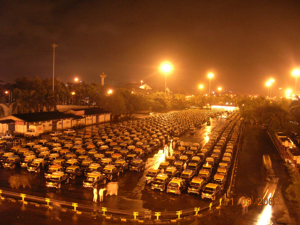 Chhatrapati Shivaji International Airport Taxicab stand at night. photo has printed in Hindustal times Mumbai on 4 th July 2007